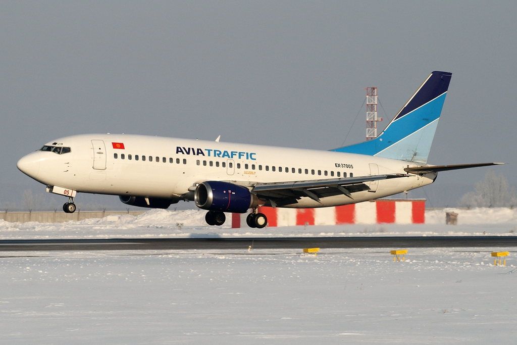 Ex HZ-DMO Sama Airlines and PK-GHU Citilink (Garuda Indonesia). ATC - Avia Traffic Company - An-24's and BAe-146's the Kyrgyzstan's airline name.